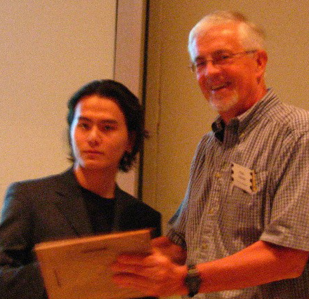 A picture of Hakwan Lau receiving the 2005 William James Prize.